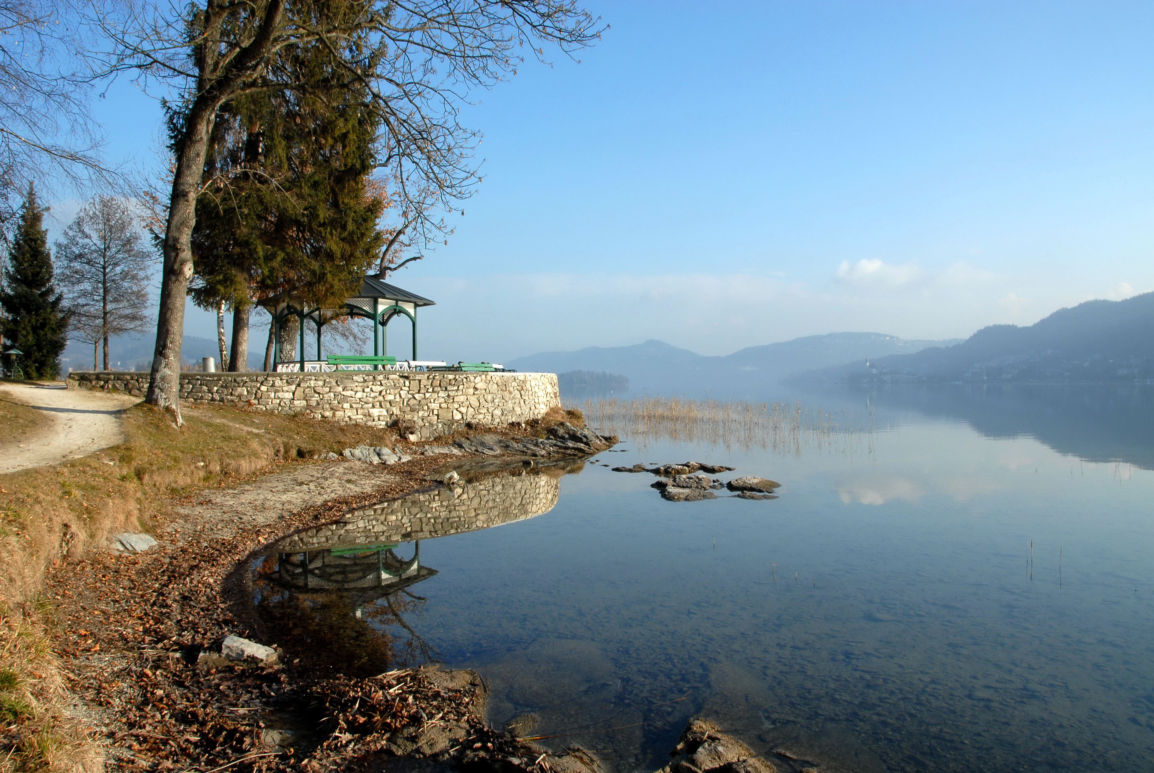 Gazebo on the peninsula`s Landspitz, municipality Poertschach on the Lake Woerth, district Klagenfurt Land, Carinthia / Austria / EU